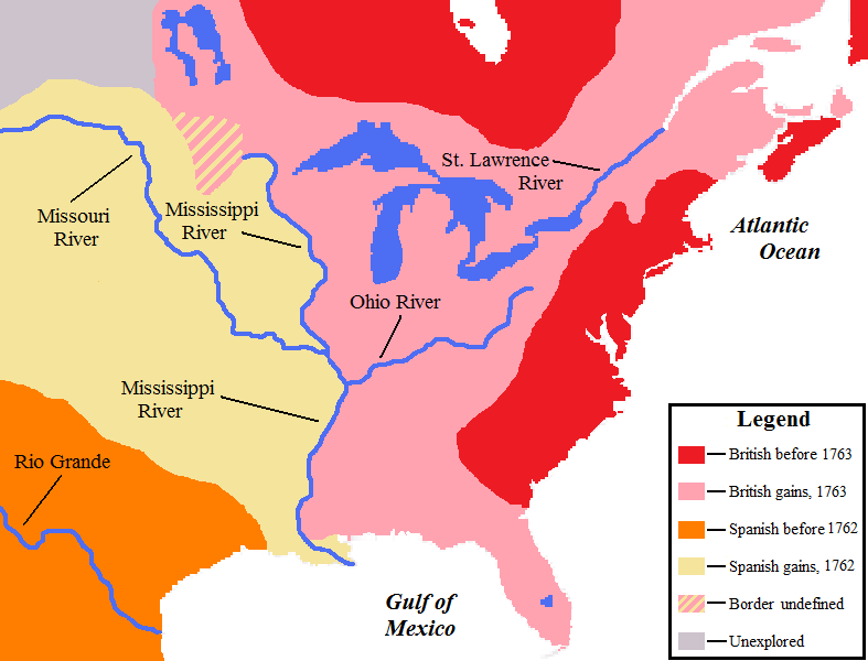 Map showing the North American territorial gains of Spain in 1762 and Britain in 1763.